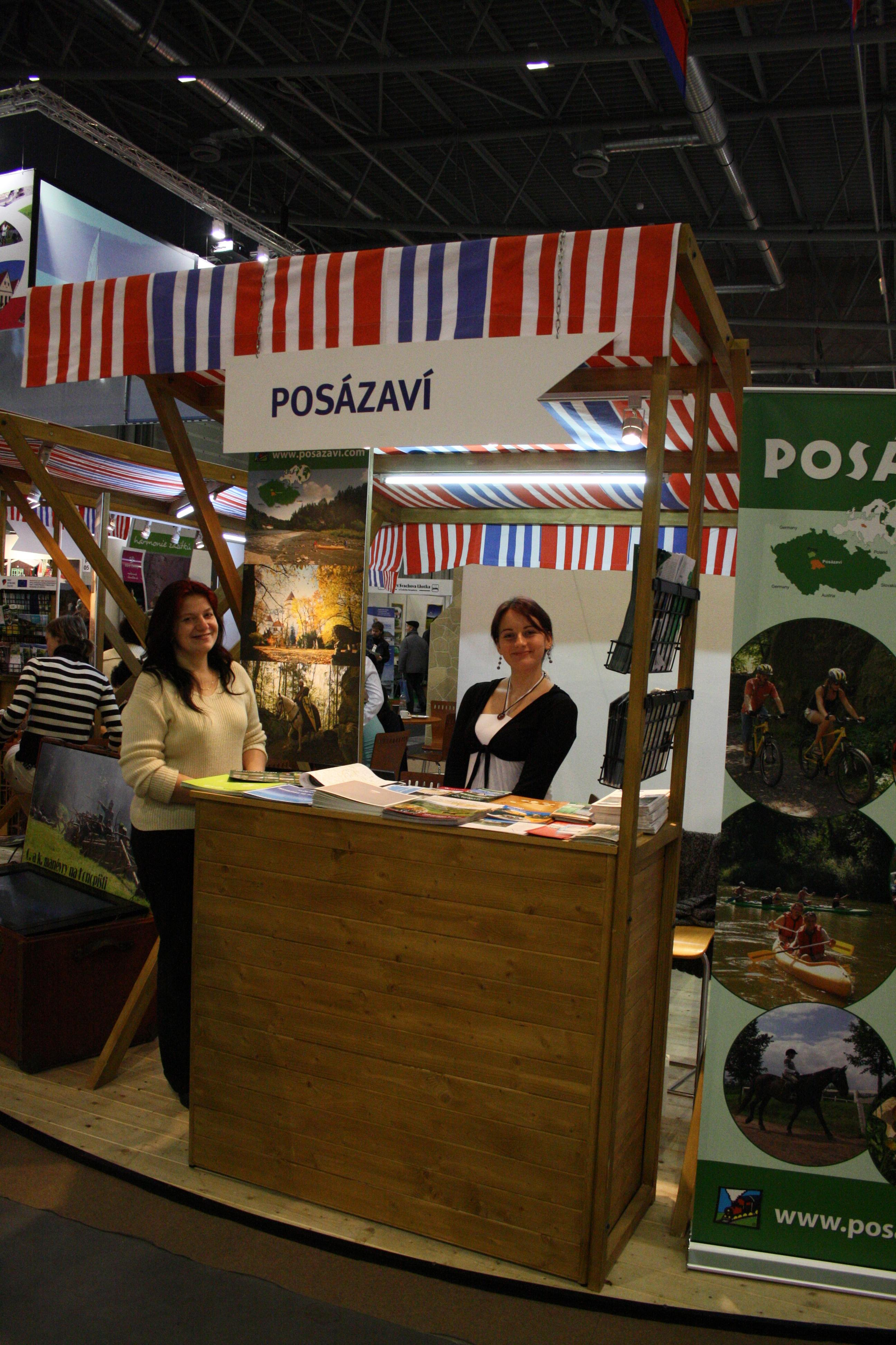 Presentation of various touristic destinations of Czech Republic.